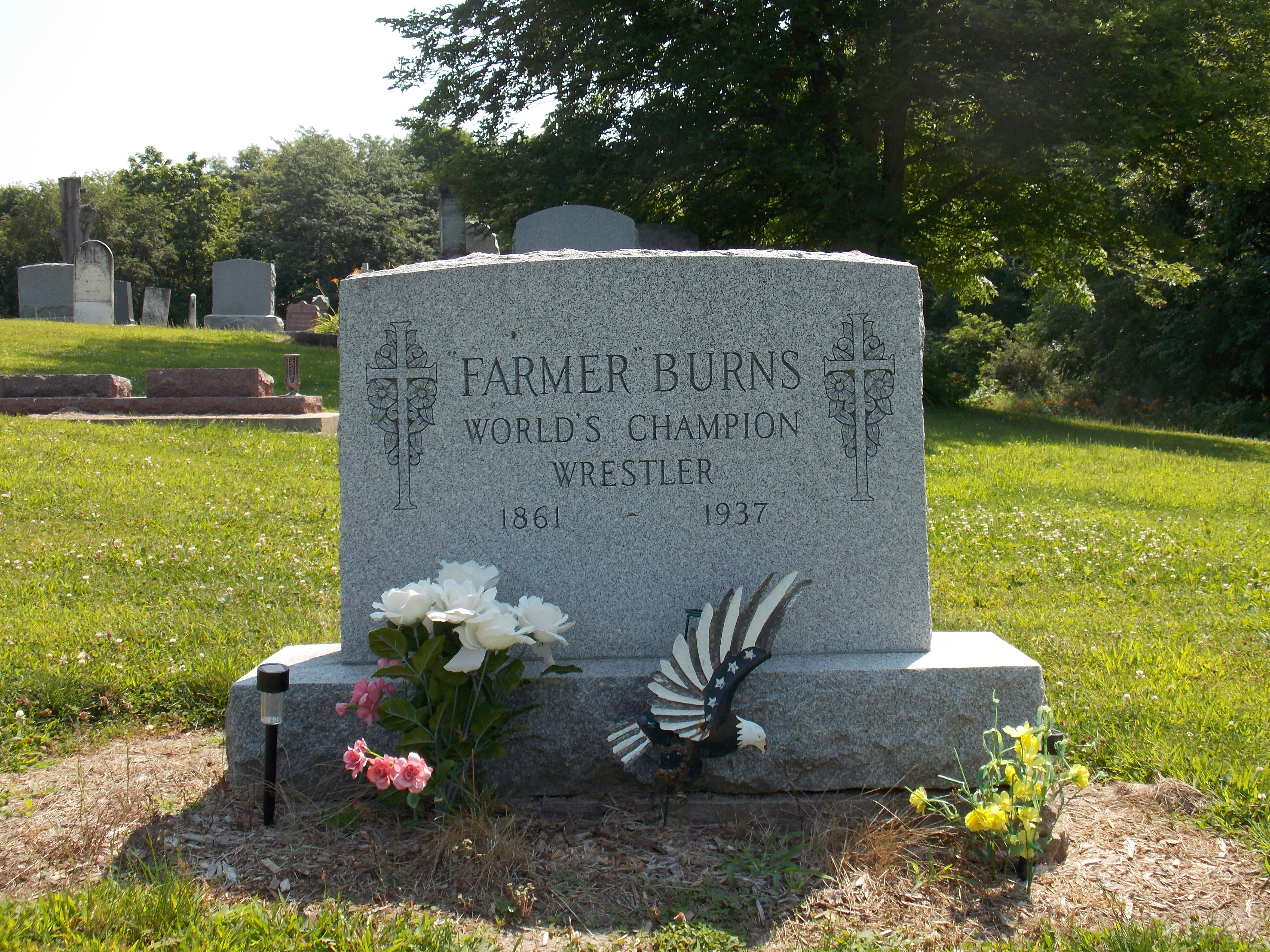 The grave of Martin "Farmer" Burns in Saint James Cemetery, Toronto, Iowa.